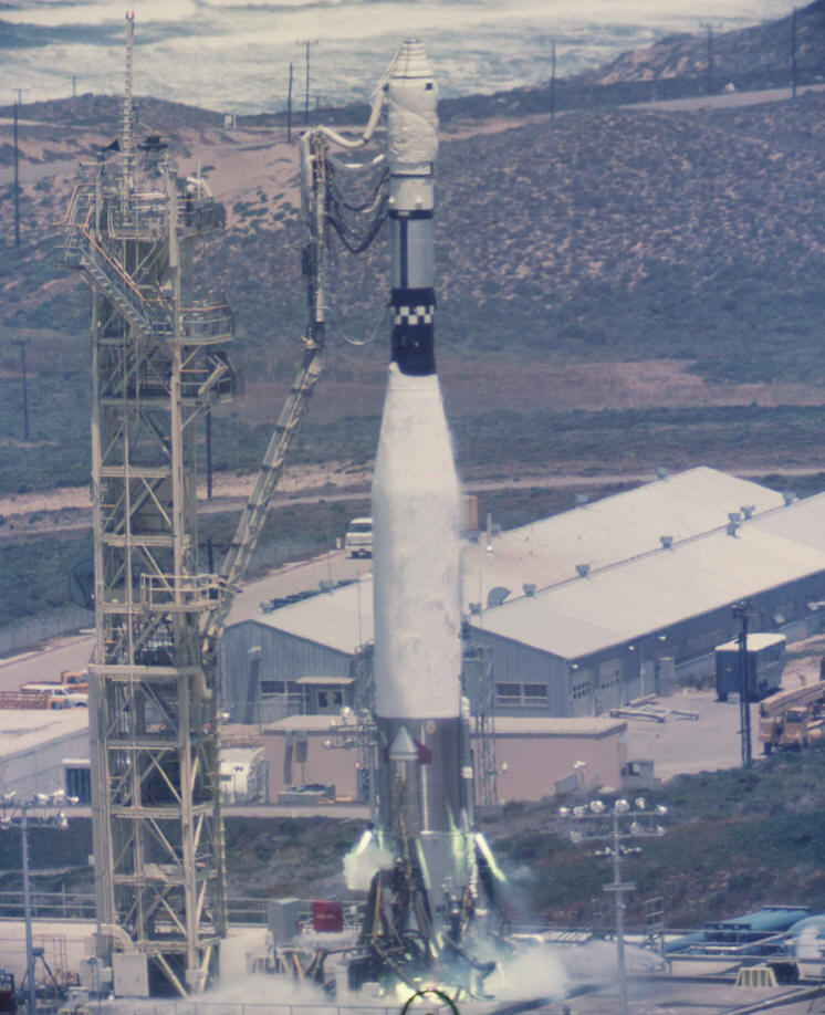 Launch of the Atlas SLV-3 Agena D rocket (Atlas 7109) with satellites Hitchhiker 9 and KH-7 19 (GAMBIT 19), June 25, 1965.